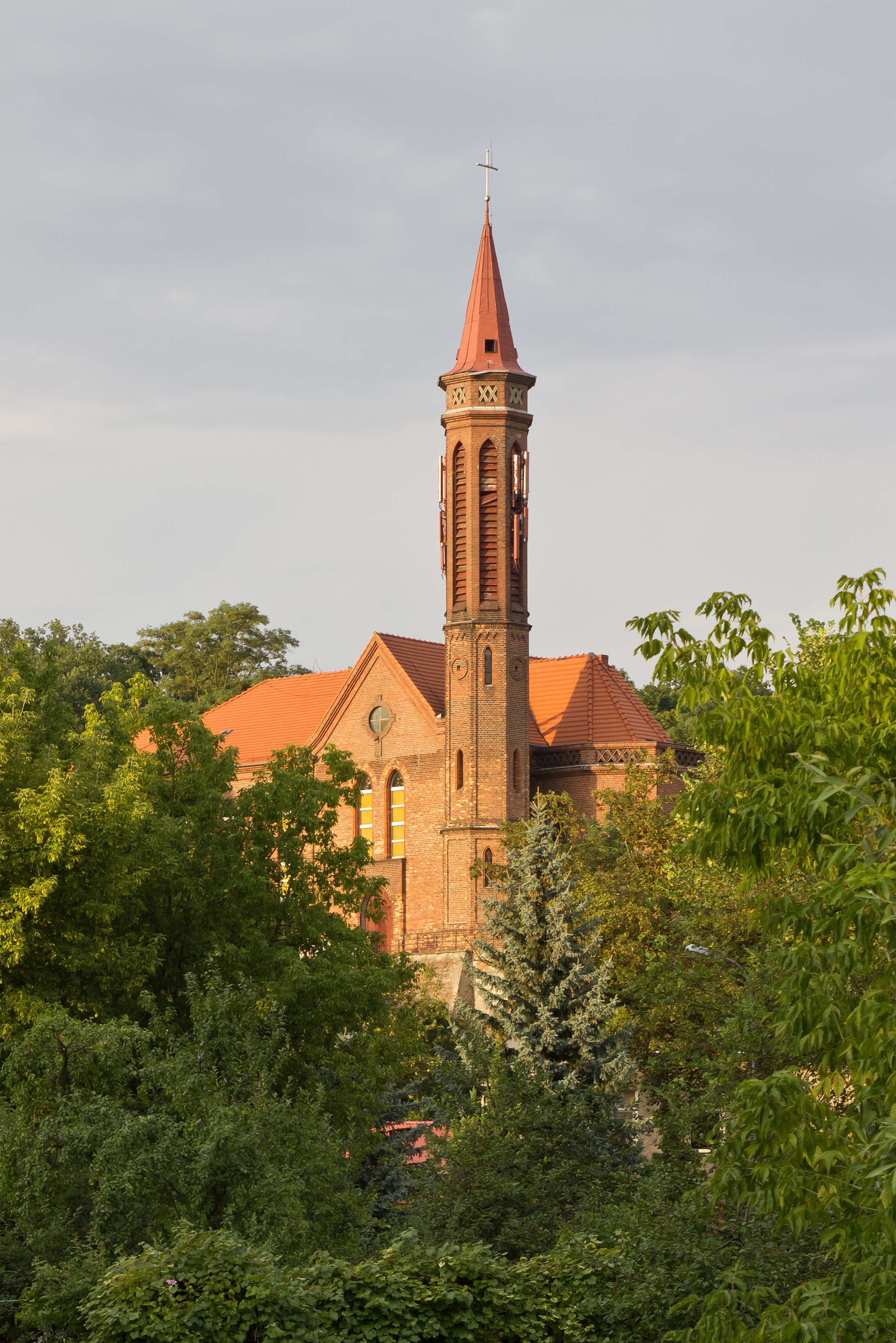 Holy Trinity Church in Gubin, Lubusz Voivodeship, Poland